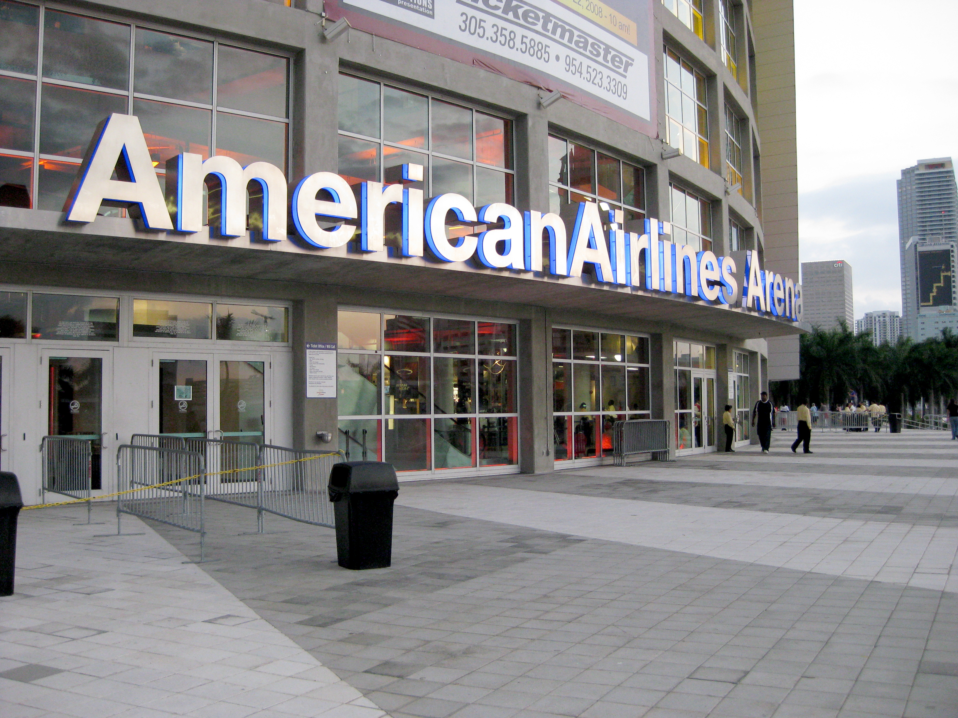 American Airlines Arena in Miami in January 2009.